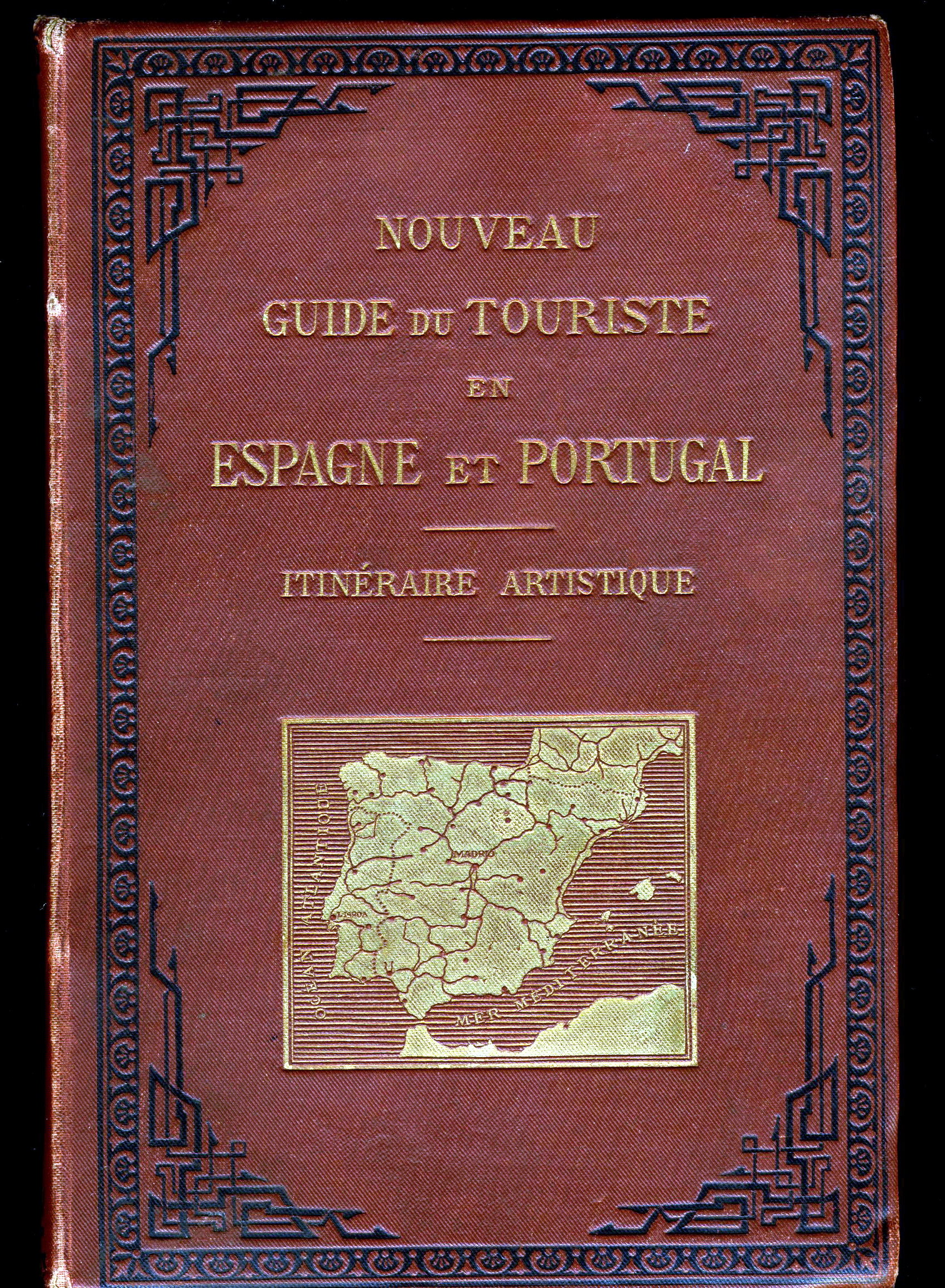 Catalog of the photographs sold by J. Laurent & Company in October 1879. This book has 675 pages. Is a list of titles of more than 5000 photographs of Spain and Portugal, in the nineteenth century. Book printed in Madrid, Spain. Language used: French. Photographer J. Laurent (1816-1886) worked in Spain (between 1855 and 1886) and Portugal (1869).